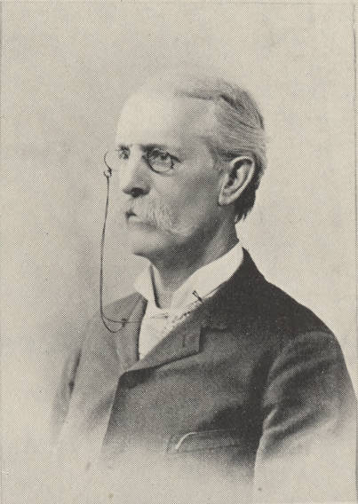 Abraham C. Shortridge (1833–1919), teacher from Indiana, USA, and president of Purdue University